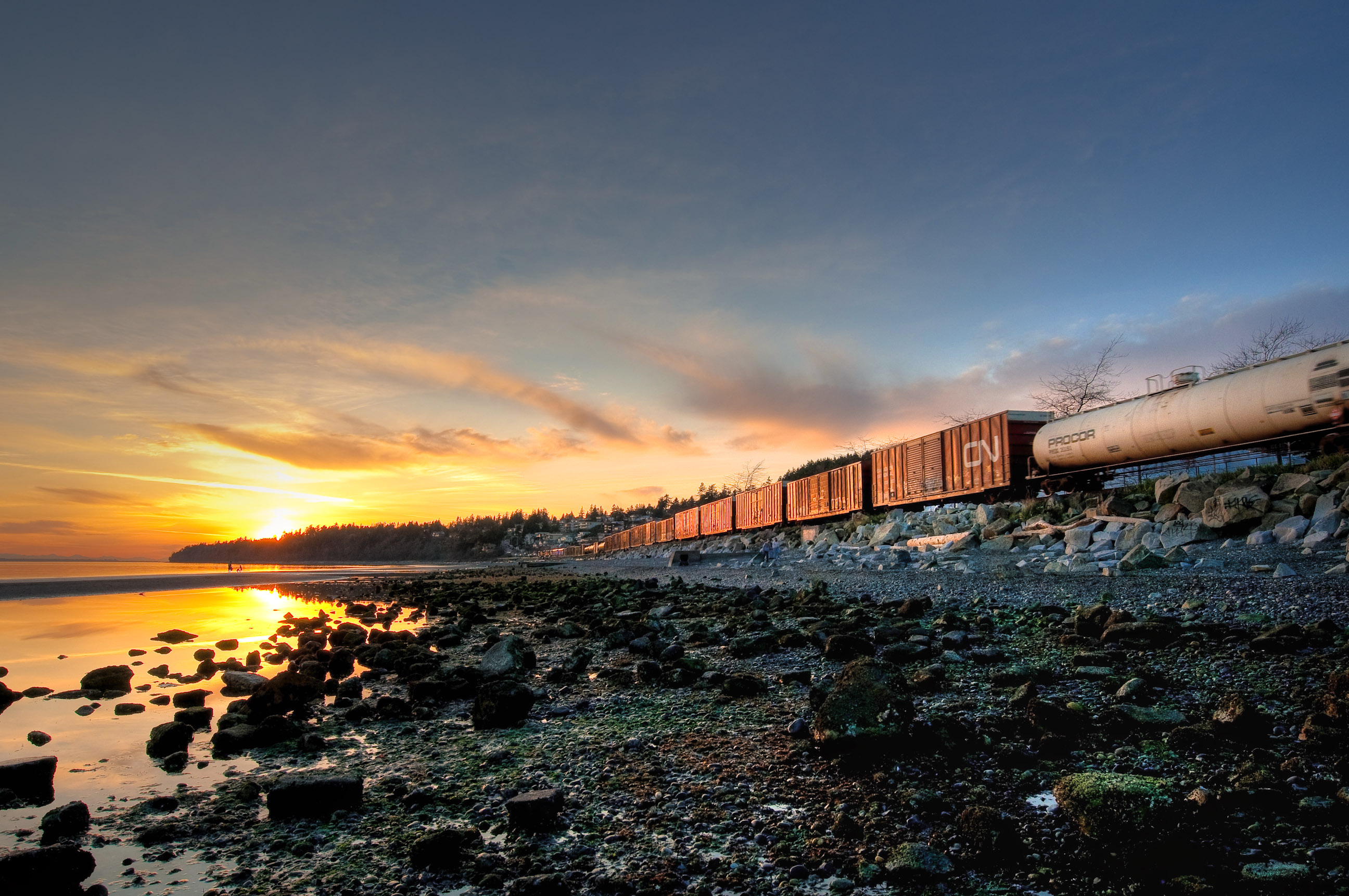 A more 'HDR' looking image than usual compared to what my HDRs usually look like.